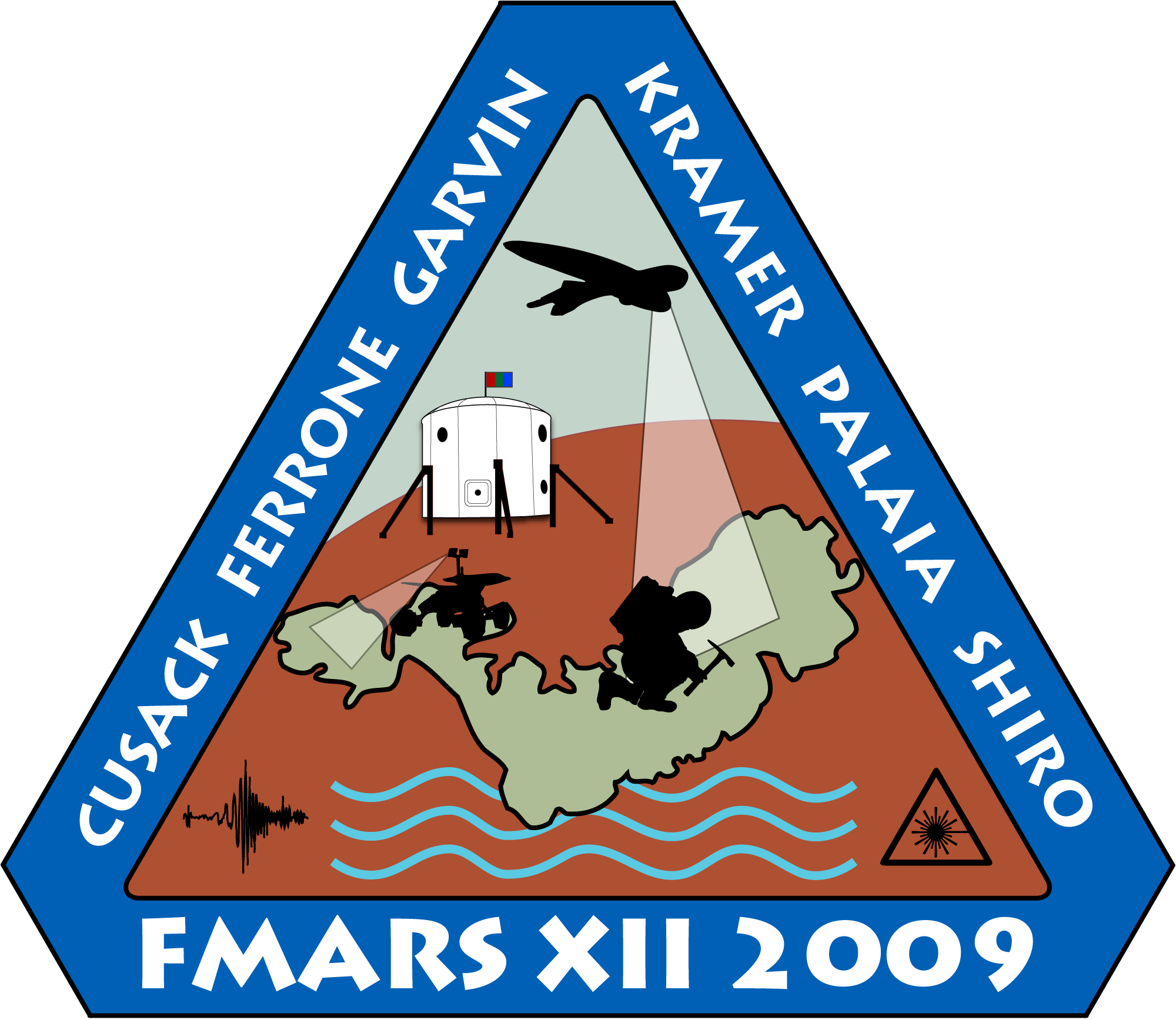 FMARS Crew 12 patch from 2009